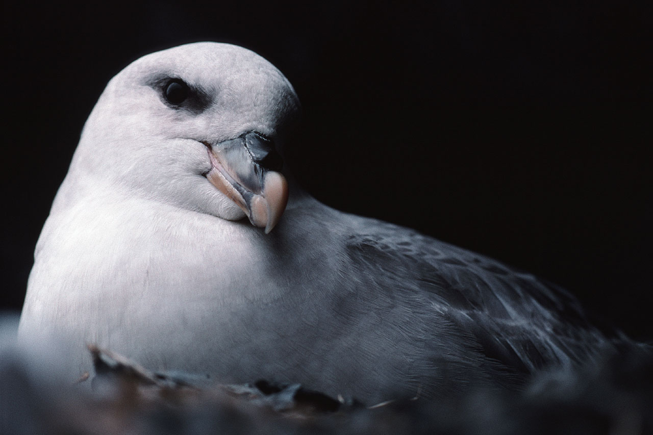 Fulmarus glacialis, Northern Fulmar, breeding at Bjørnøya (Bear Island)